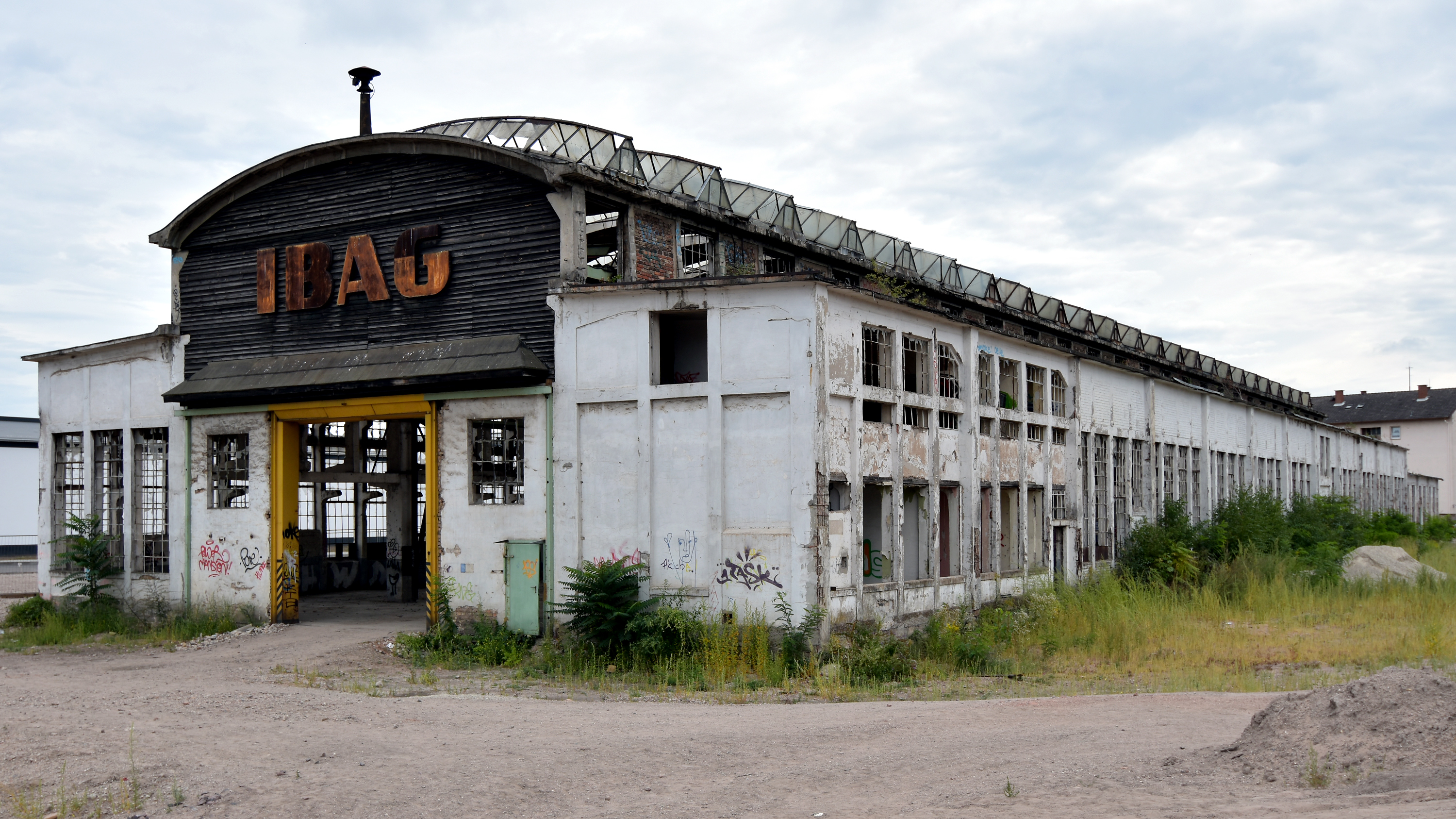 IBAG, Neustadt an der Weinstraße